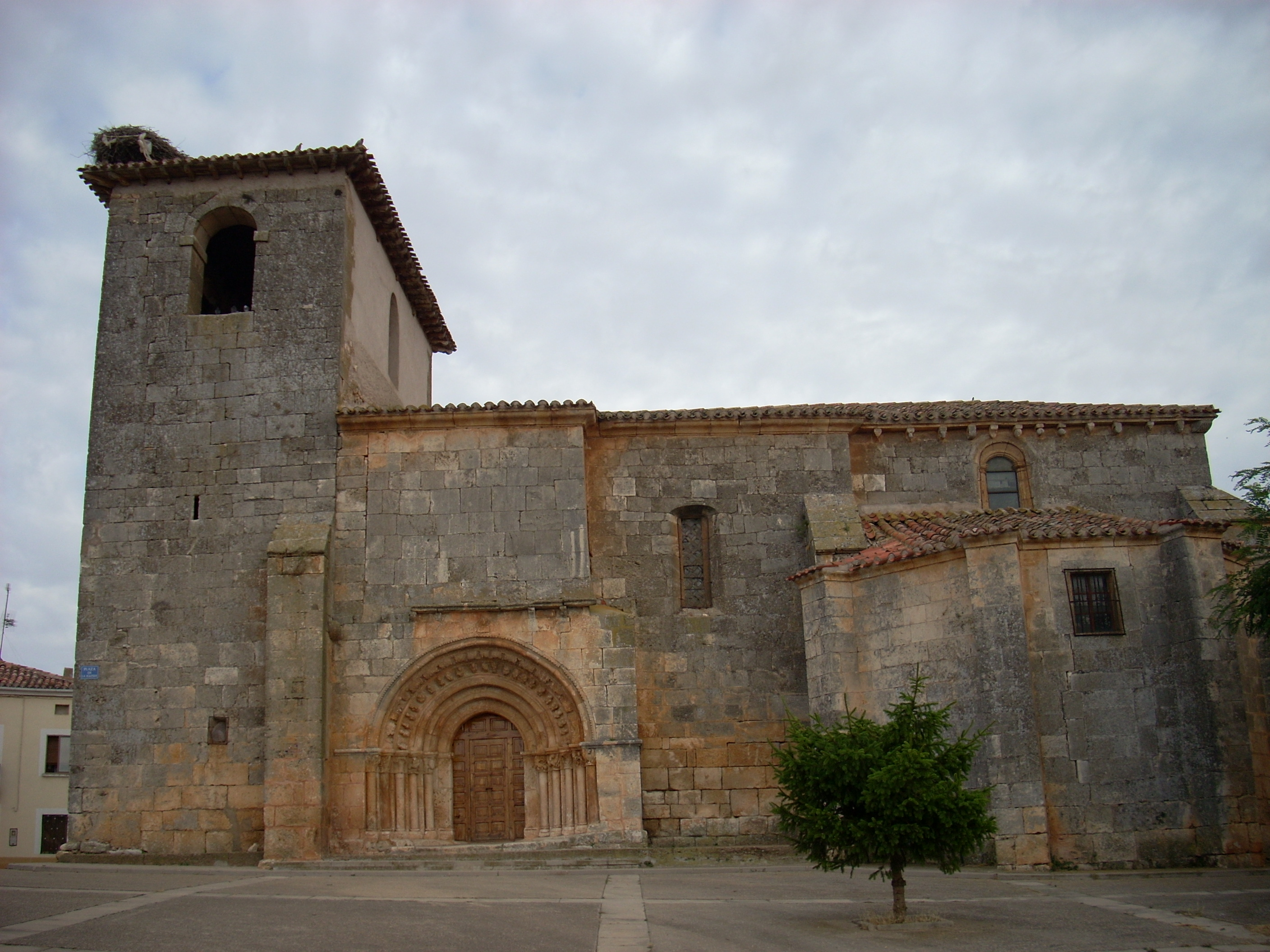 Church of St. Michael, Madrigal del Monte, Burgos, Spain